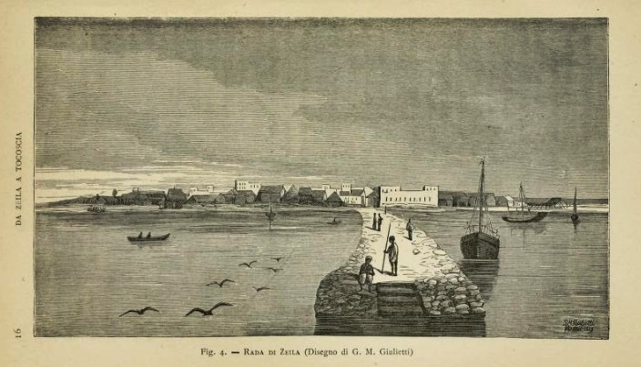 Drawing of Zeila's waterfront, by a member of an Italian expedition sent by the Italian Geographical Society to explore part of Ethiopia in 1877.